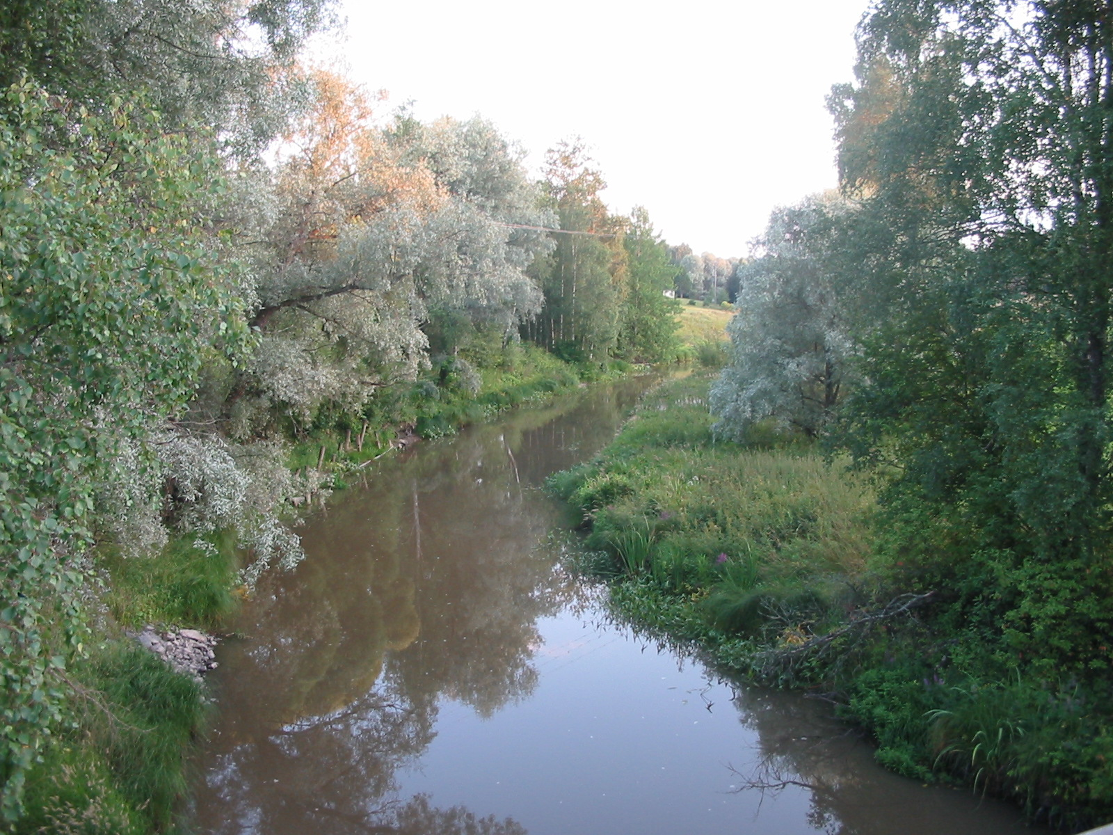 Jaatilanjoki, a tributary of Paimionjoki river in Somero, Finland